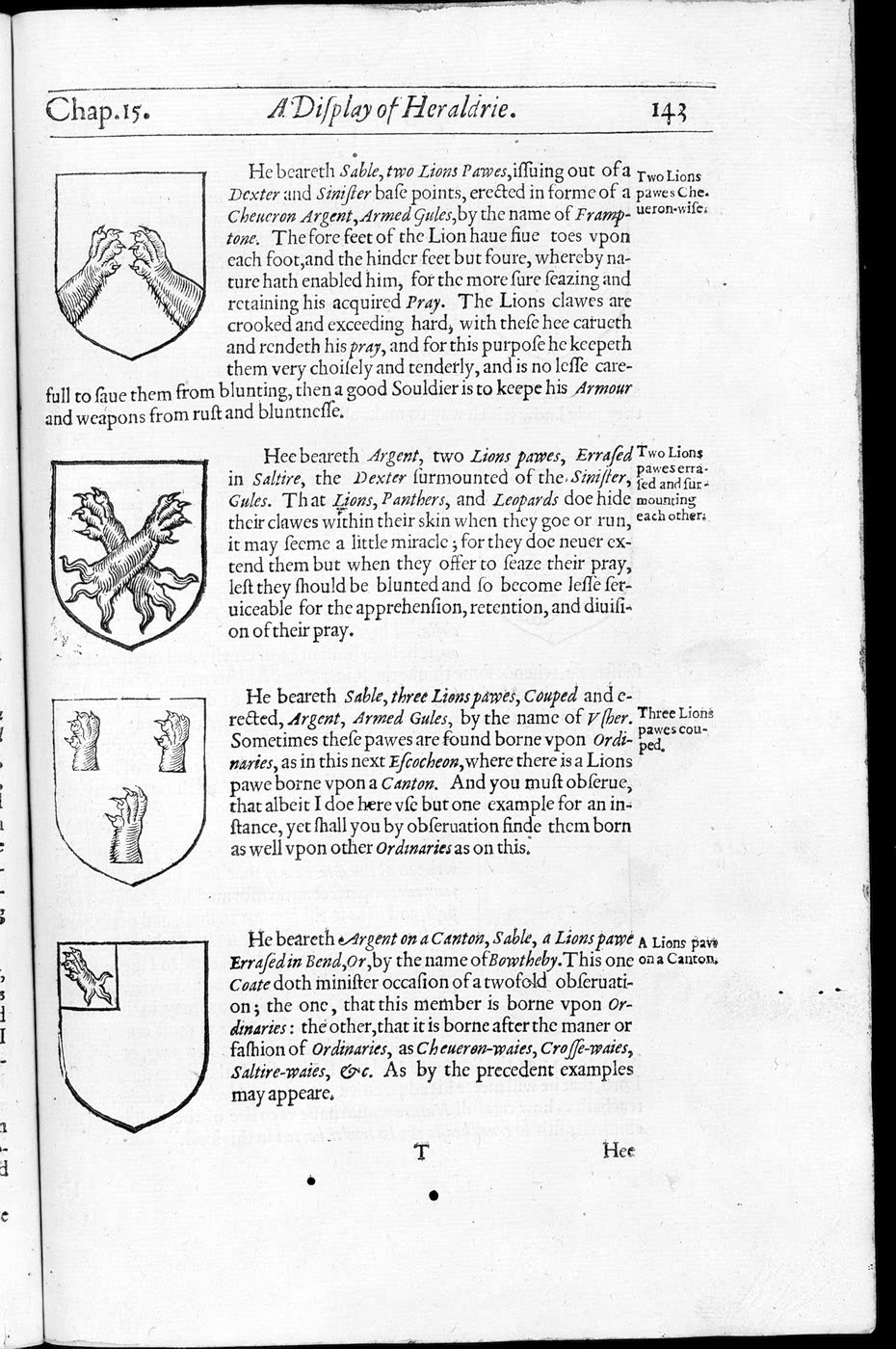 An image of page 143 of "A Display of Heraldrie," an early text explicating the system of heraldry, written by John Grullin, and published at London in 1611. Courtesy of the Beinecke Rare Book & Manuscript Library, Yale University.